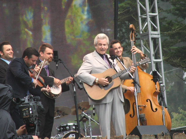 Hardly Strictly Bluegrass Festival 2005. Golden Gate Park - San Francisco, CA. Photo by Ron Baker.